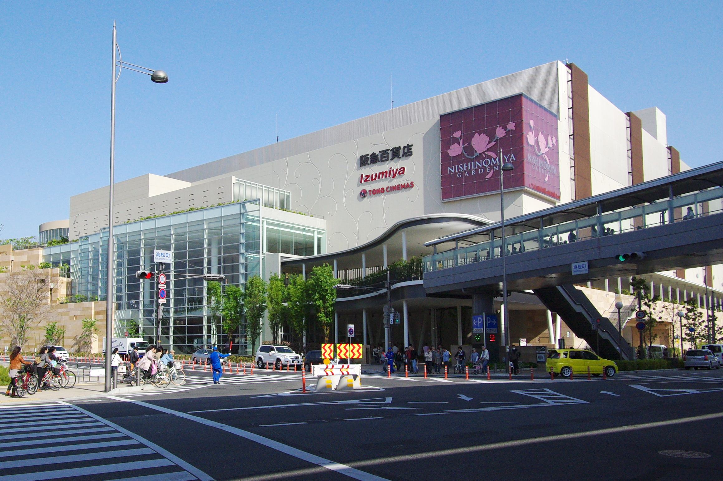 Photograph of the main entrance of Hankyu Nishinomiya Gardens in Nishinomiya, Hyogo Prefecture, Japan.